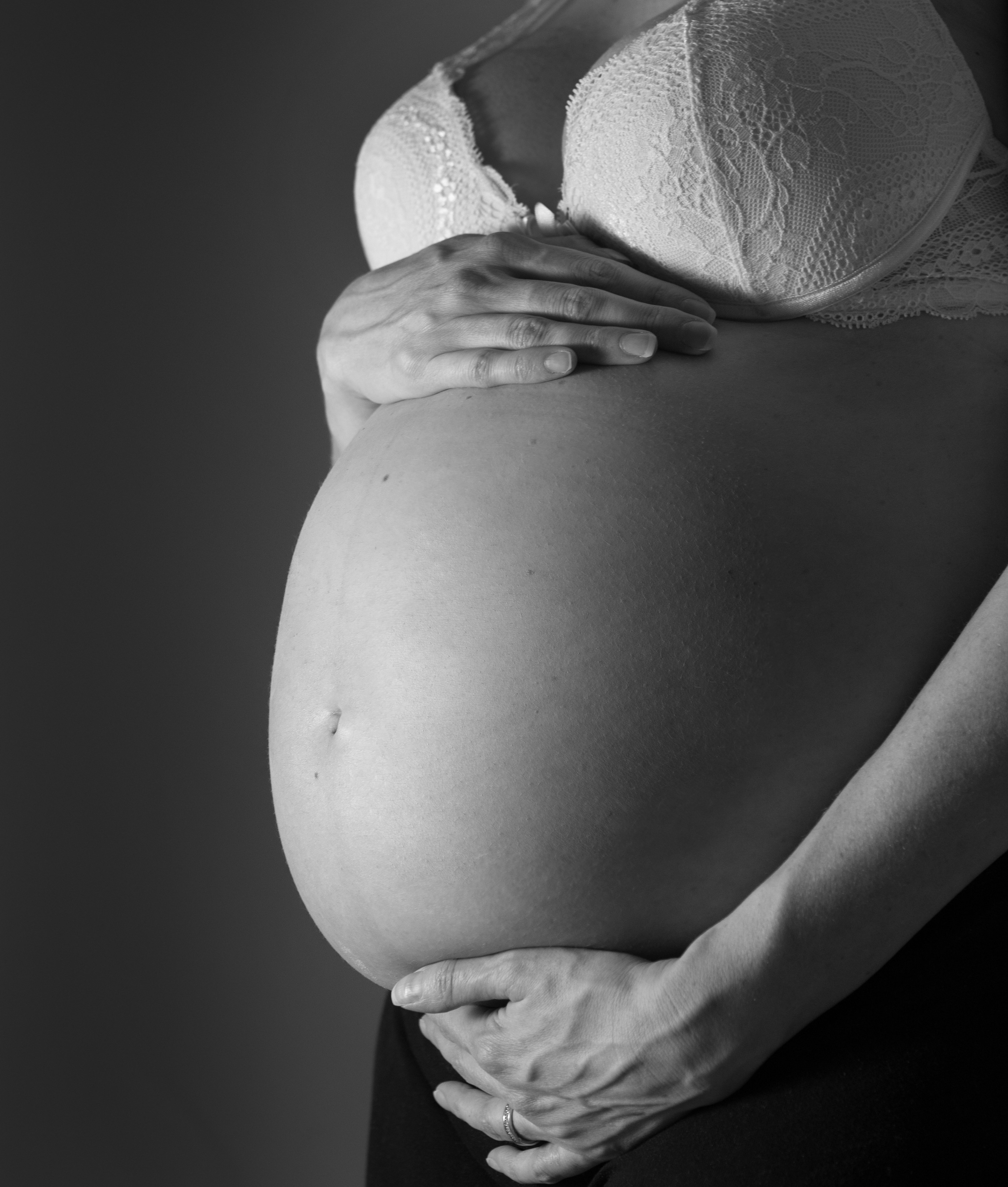 A pregnant woman, pregnancy in the third trimester This photograph was taken with a Olympus E-M1.